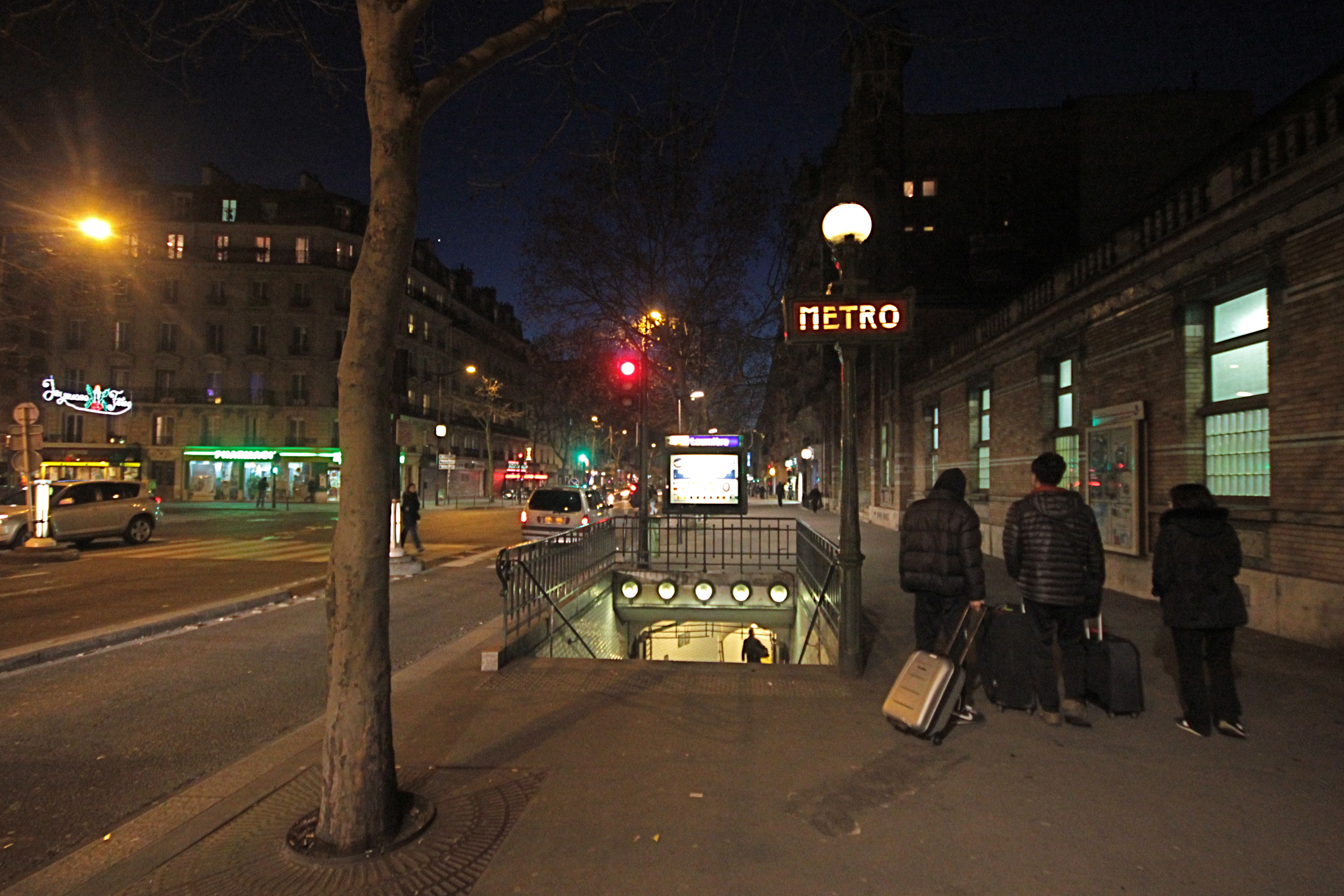 Entrance of metro station Laumière on Parisian metro line 5 on rue Laumière